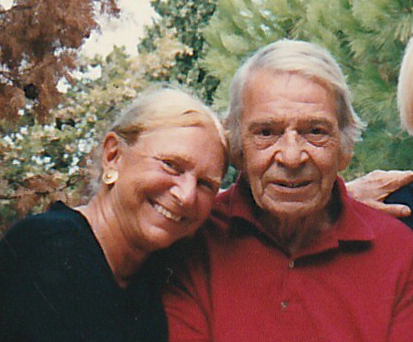 Nicole Di Dio Ménant et François Di Dio à Pino (Cap Corse) en 1997